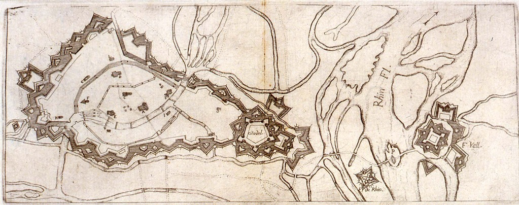 Plan (map) of Strasbourg and Kehl, showing location of the river